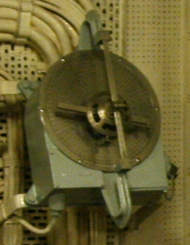 Dumaresq in the fire control room of HMS Belfast